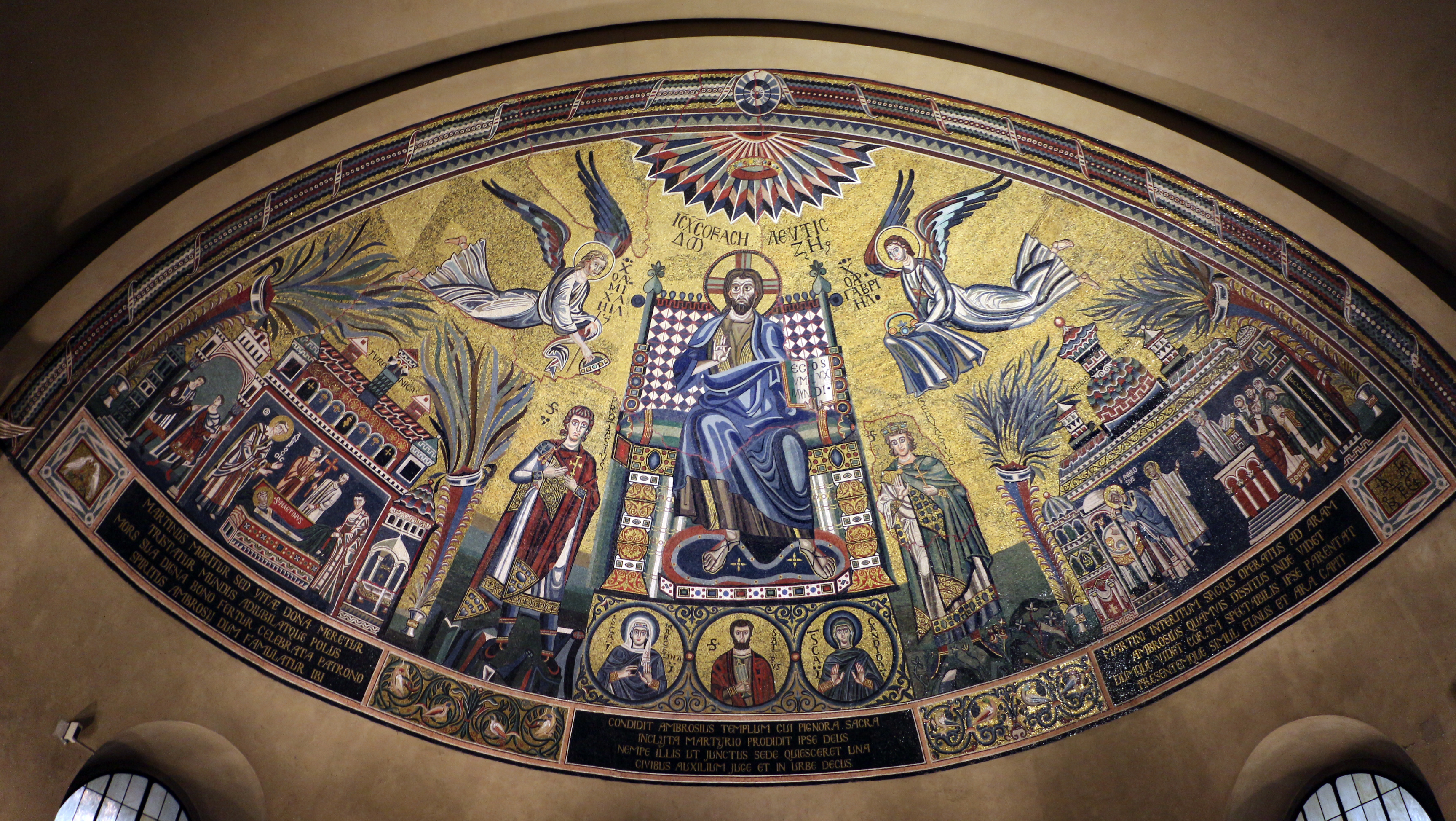 Sant'Ambrogio (Milan)